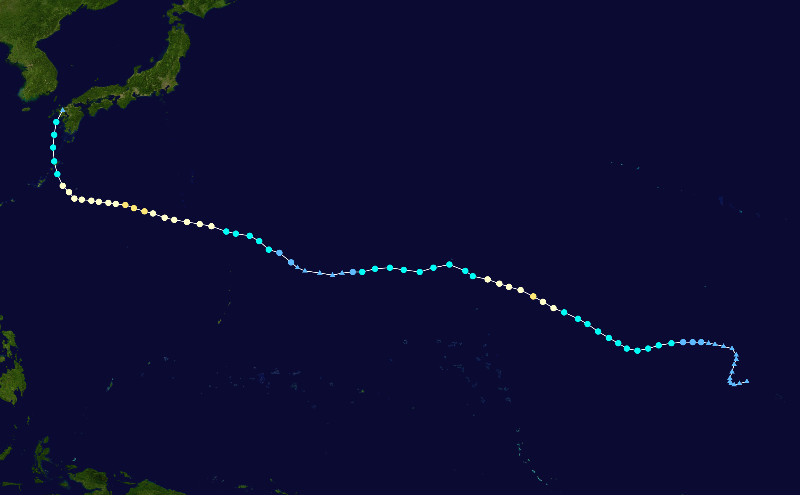 Track map of Typhoon Halola of the 2015 Pacific hurricane season and the 2015 Pacific typhoon season. The points show the location of the storm at 6-hour intervals. The colour represents the storm's maximum sustained wind speeds as classified in the Saffir–Simpson scale (see below), and the shape of the data points represent the nature of the storm, according to the legend below. Saffir–Simpson scale Tropical depression≤38 mph≤62 km/h Category 3111–129 mph178–208 km/h Tropical storm39–73 mph63–118 km/h Category 4130–156 mph209–251 km/h Category 174–95 mph119–153 km/h Category 5≥157 mph≥252 km/h Category 296–110 mph154–177 km/h Unknown Storm type Tropical cyclone Subtropical cyclone Extratropical cyclone / Remnant low / Tropical disturbance / Monsoon depression